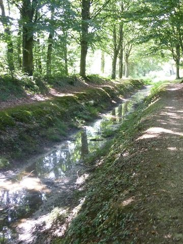 Rigole de Boulet